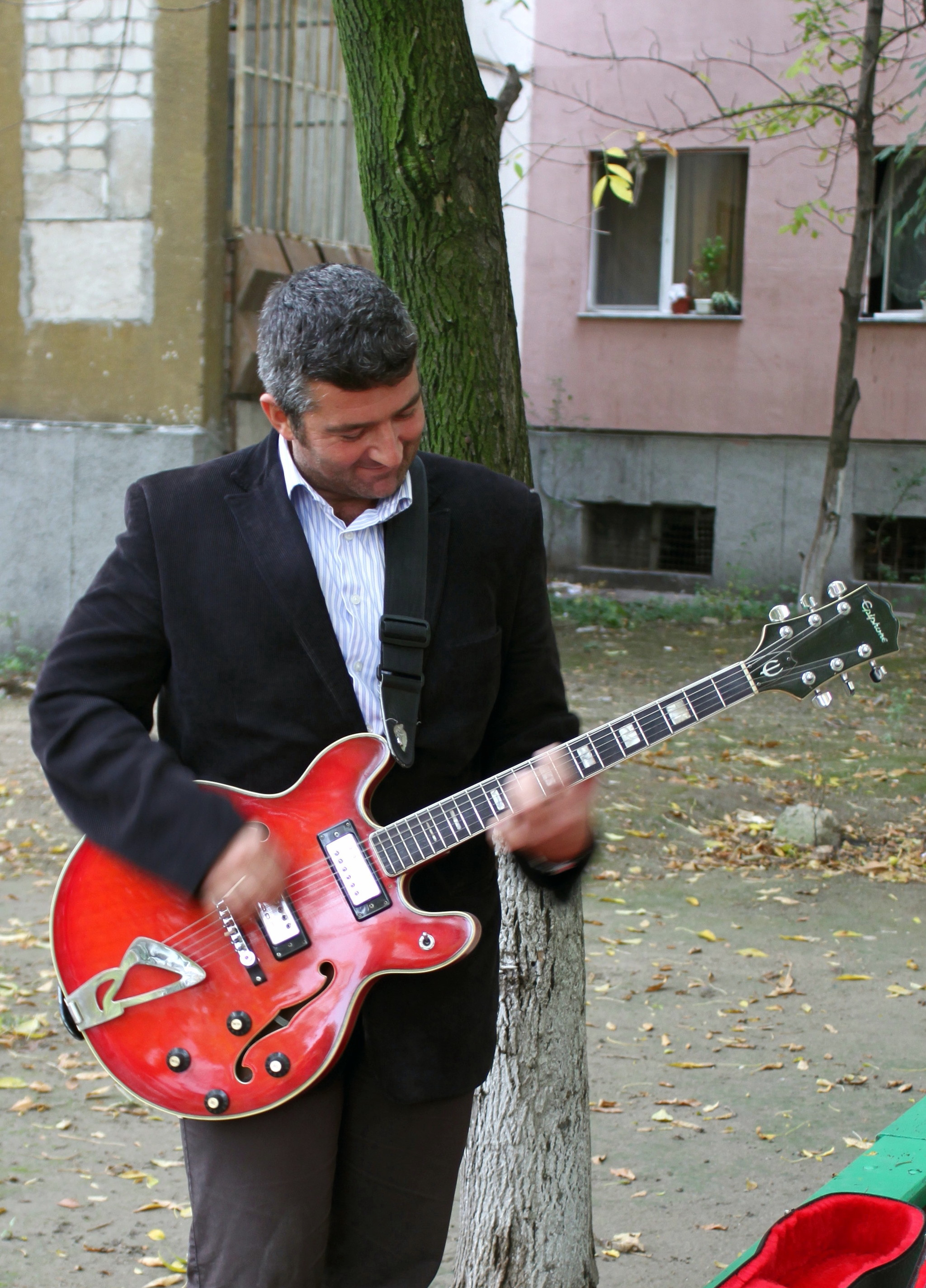 Boyan Petkov - from bulgarian group OSTAVA